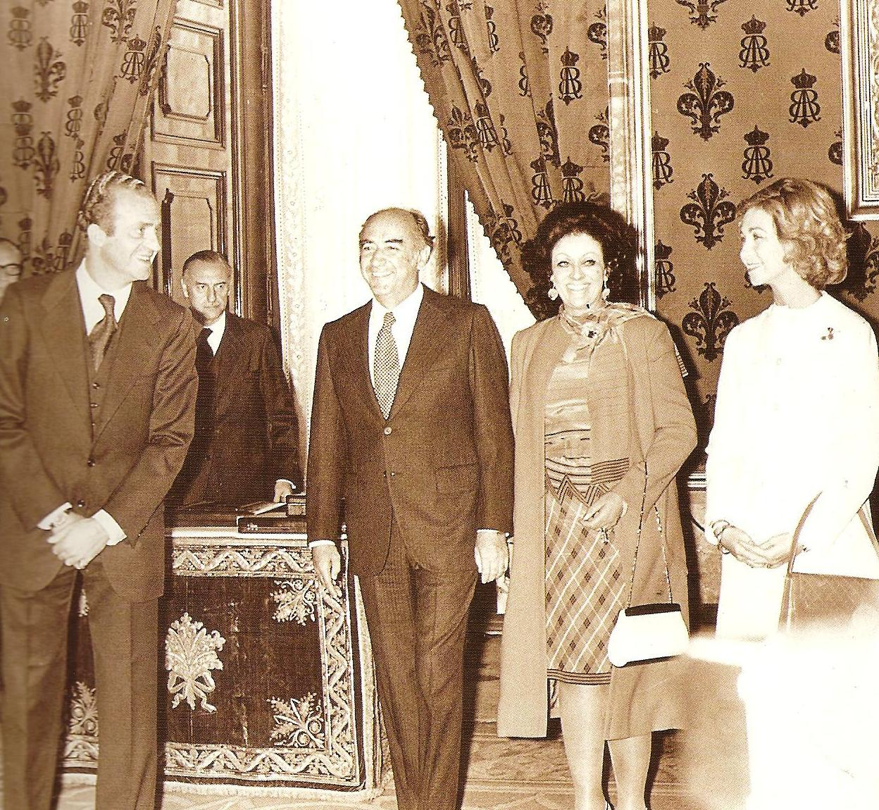 JOLOPO, Carmen Romano, king Juan Carlos and queen Sofia